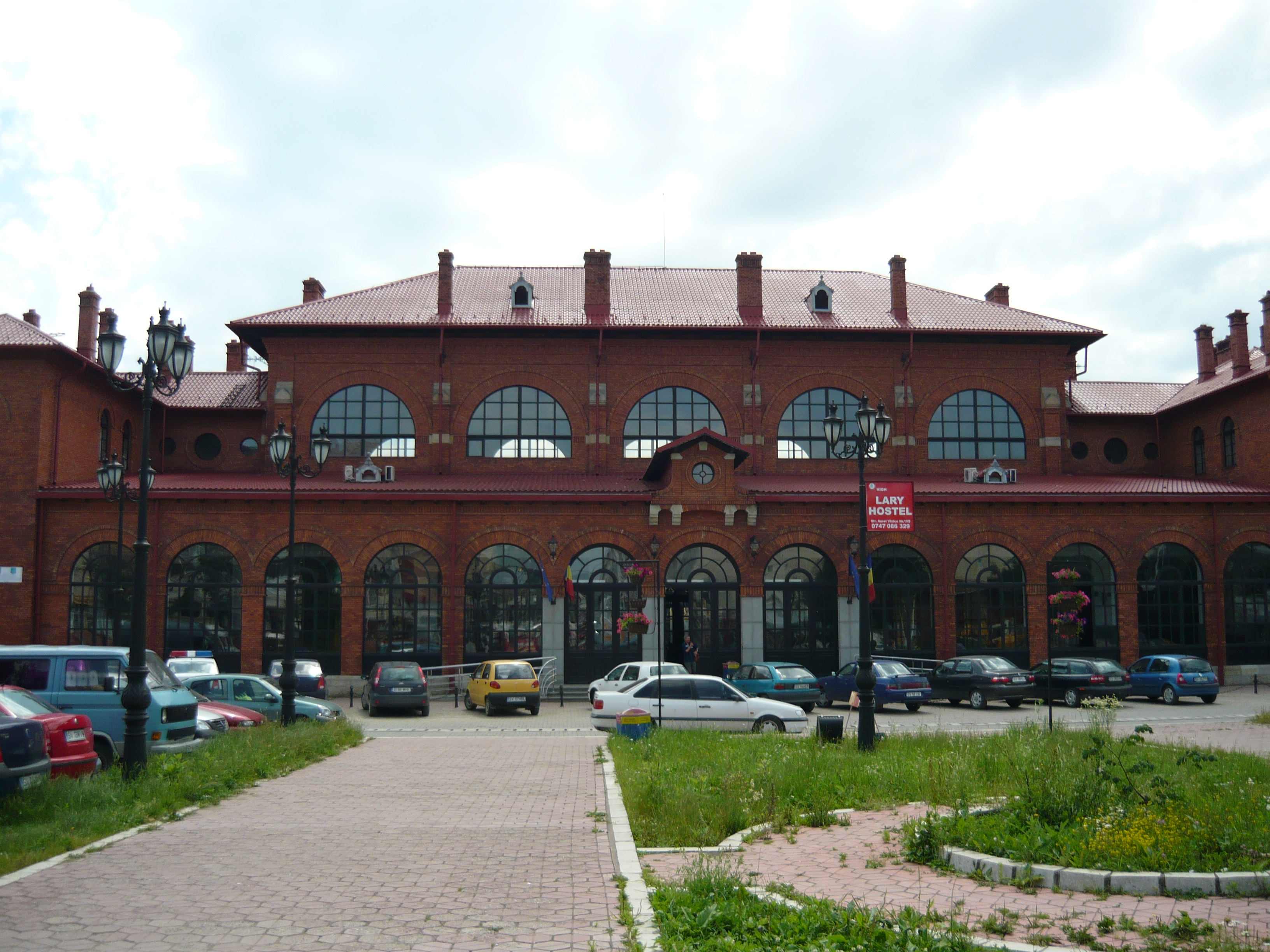 Suceava (Burdujeni) train station.